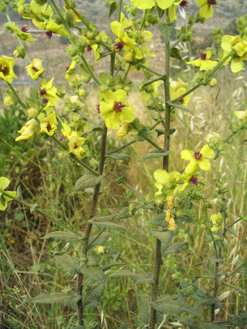 Verbascum sinuatum - image taken on 9 May 2004, near the Krayot interchange, Haifa bay area, Israel.